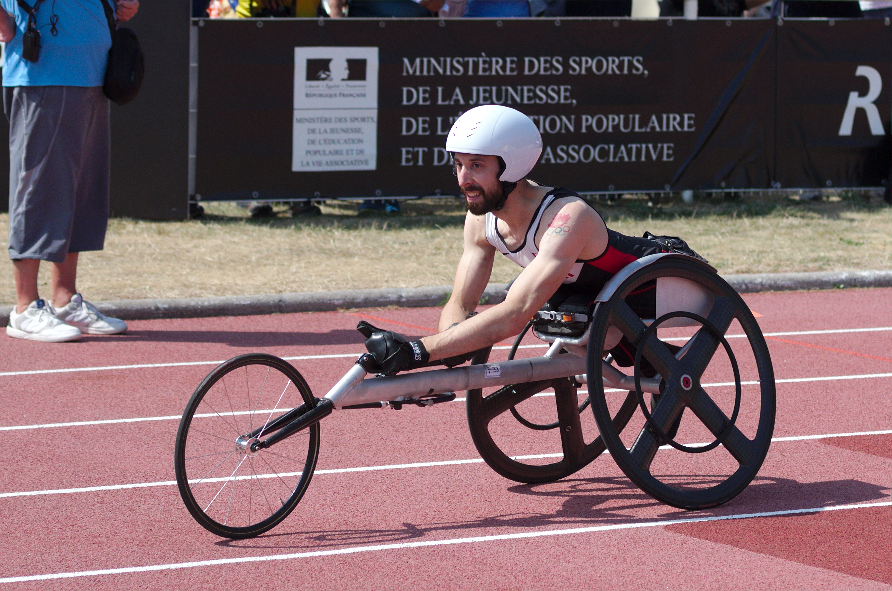 Brent Lakatos winner of the Men's 100m - T53